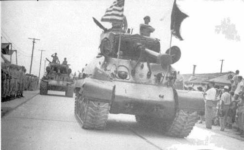 Tanks of the 206th Heavy Tank Battalion pass in review during Annual Training 1950. the Battalion was an element of the 39th Infantry Division, Arkansas and Lousiana National Guard.